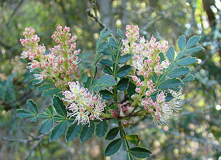 Native to southern Chile and Argentina, where it is known as Tineo or as Palo Santo. UC Berkeley Botanical Gardens. In context at